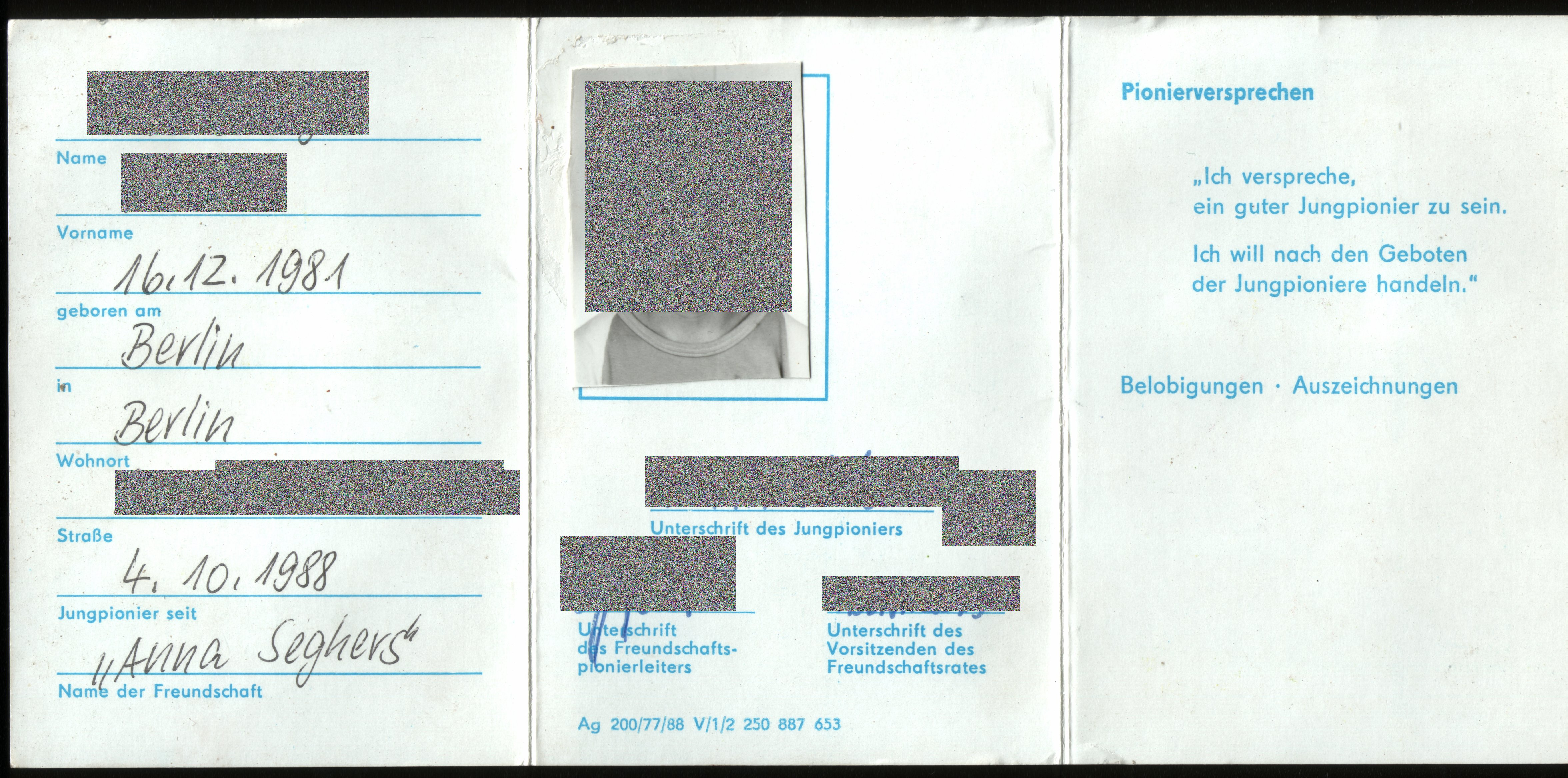 Membershipcard of the GDR organisation “Jungpioniere” in the 80th, similar to scout youth organisations in a political way – backpage